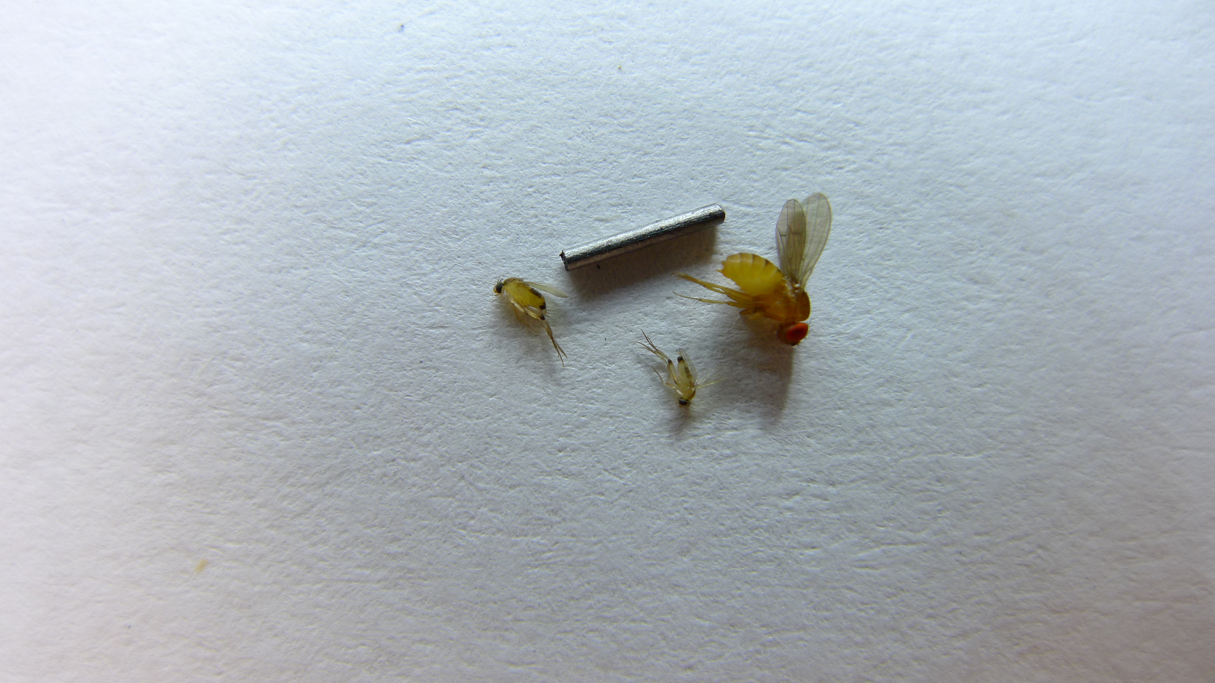 One Fruit fly, a female Drosophila nasuta of the family Drosophilidae, and two smaller Scuttle flies, male Megaselia of the family Phoridae. Found on citrus. Pereybere Mauritius, October 2012. For scale, the grey cylinder is a pencil lead, nominal diameter 0.5 mm.